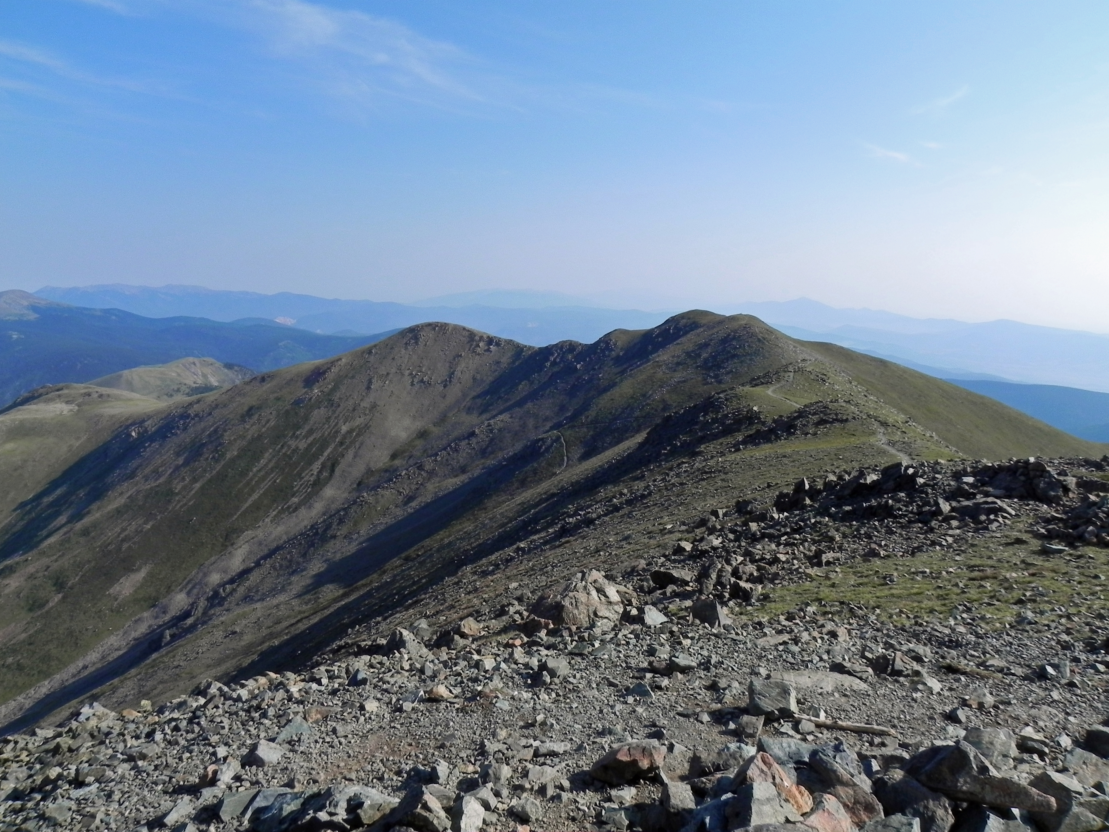 Mount Walter viewed from Wheeler Peak in the Sangre de Cristo Mountains of Carson National Forest, New Mexico